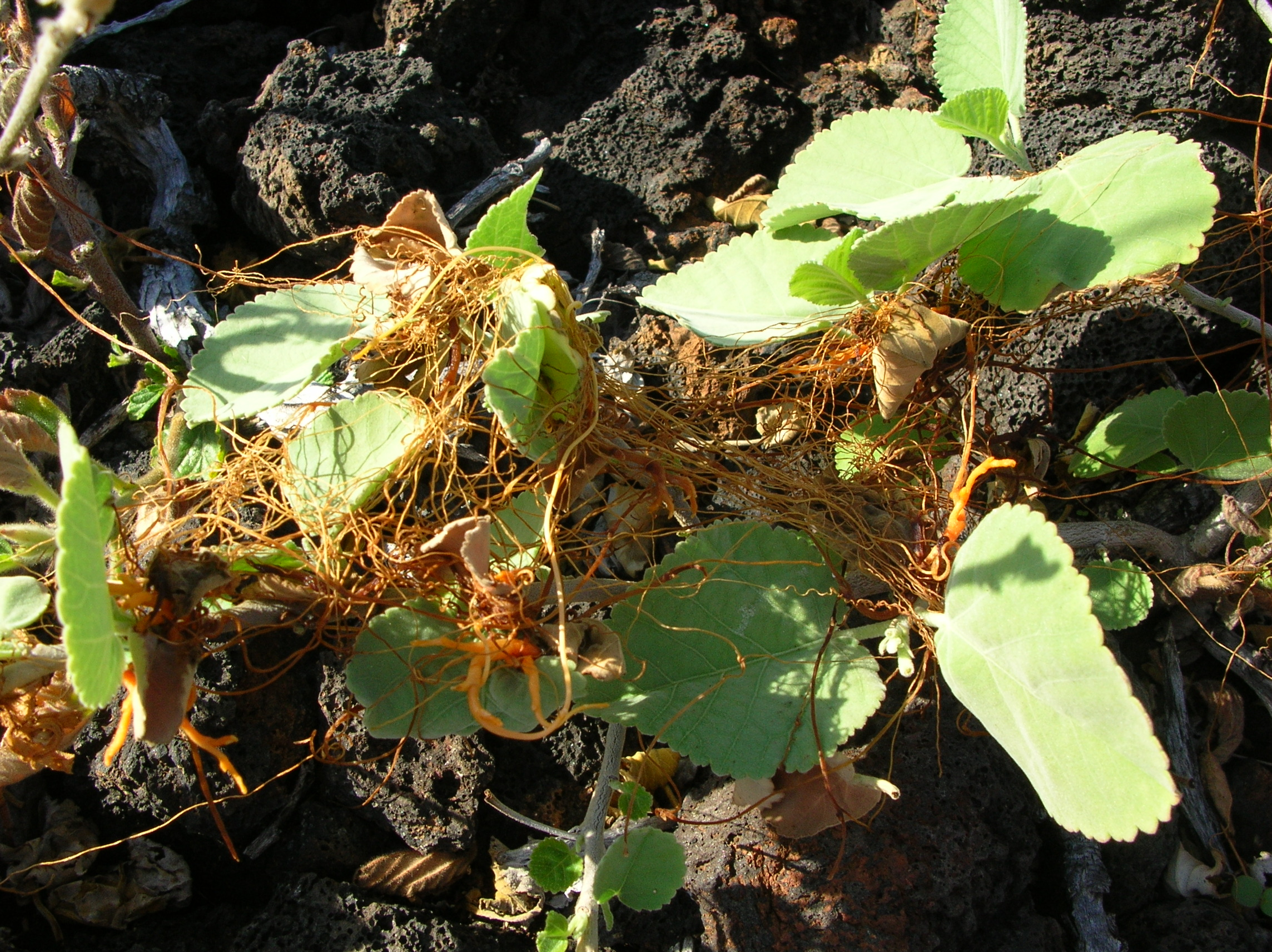 Cuscuta sandwichiana (on ilima). Location: Maui, Kanaio Beach